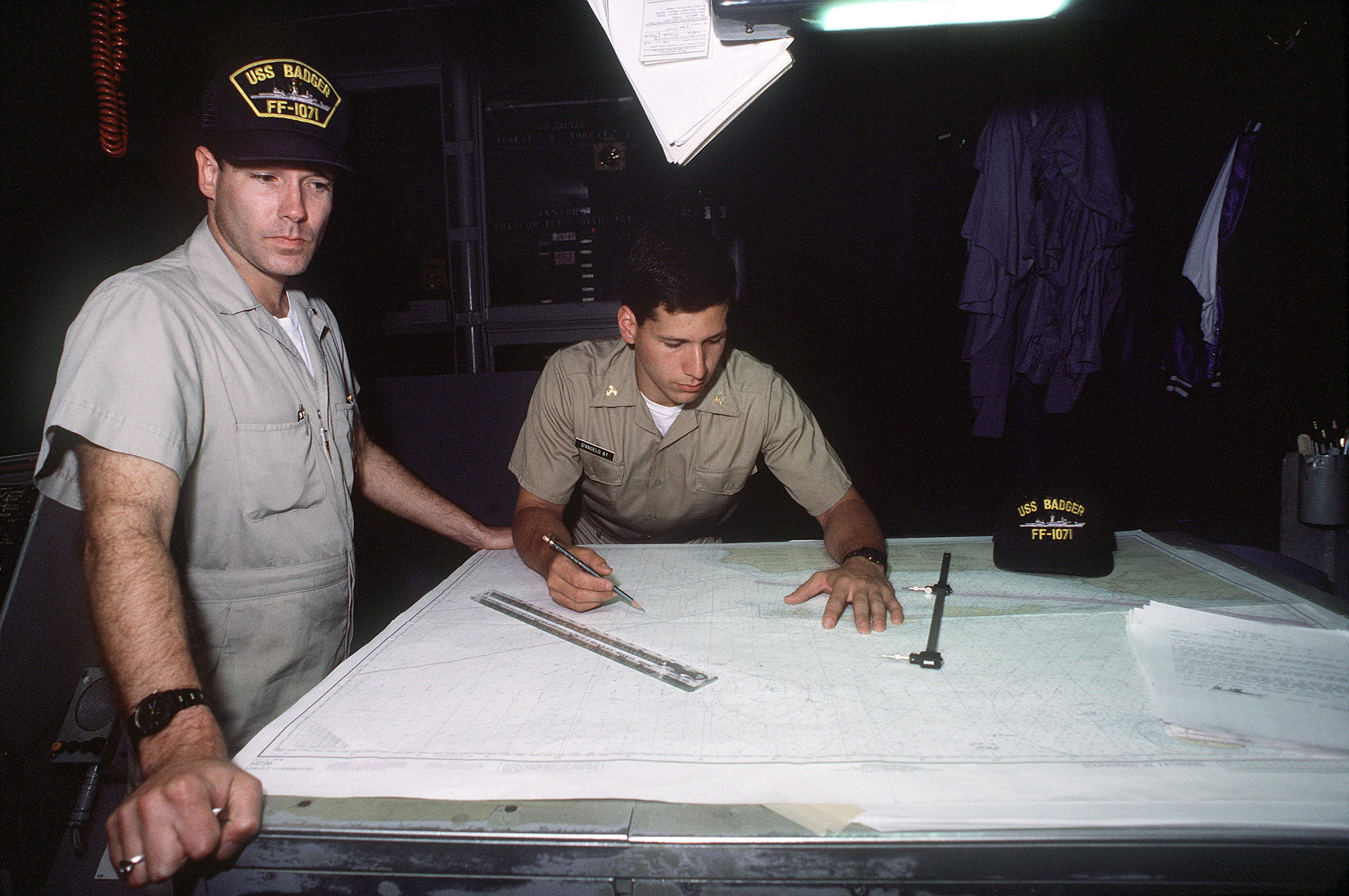 A midshipman plots a course in the combat information center of the frigate USS BADGER (FF-1071) during a midshipmen's summer training cruise.